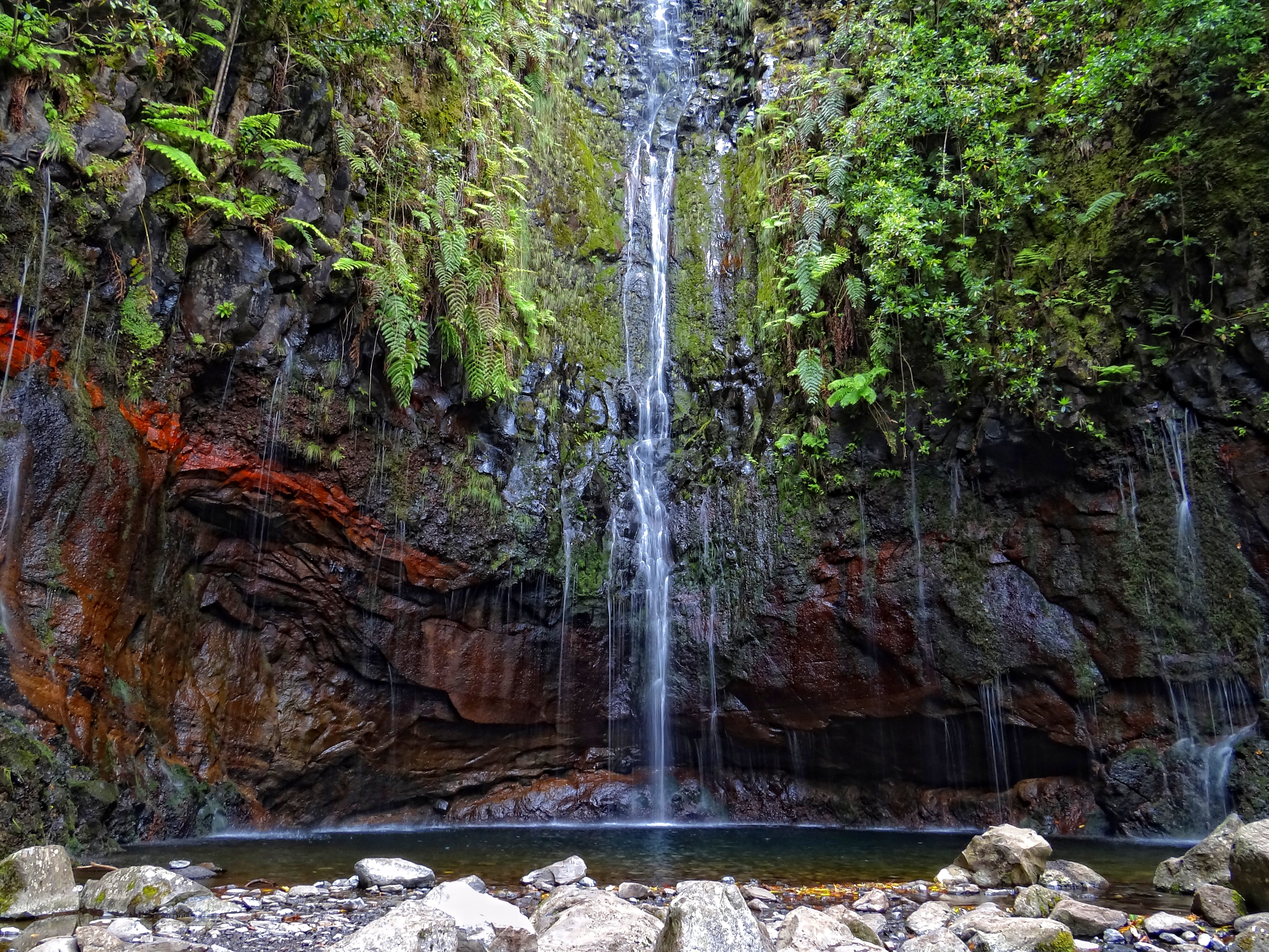 The 25 Fontes waterfall near Rabacal, Madeira, photographed during a relatively dry time of the year.